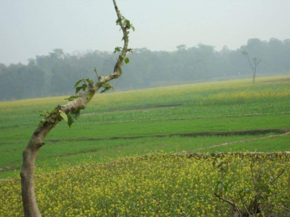 Corps of Wheat and Mustard